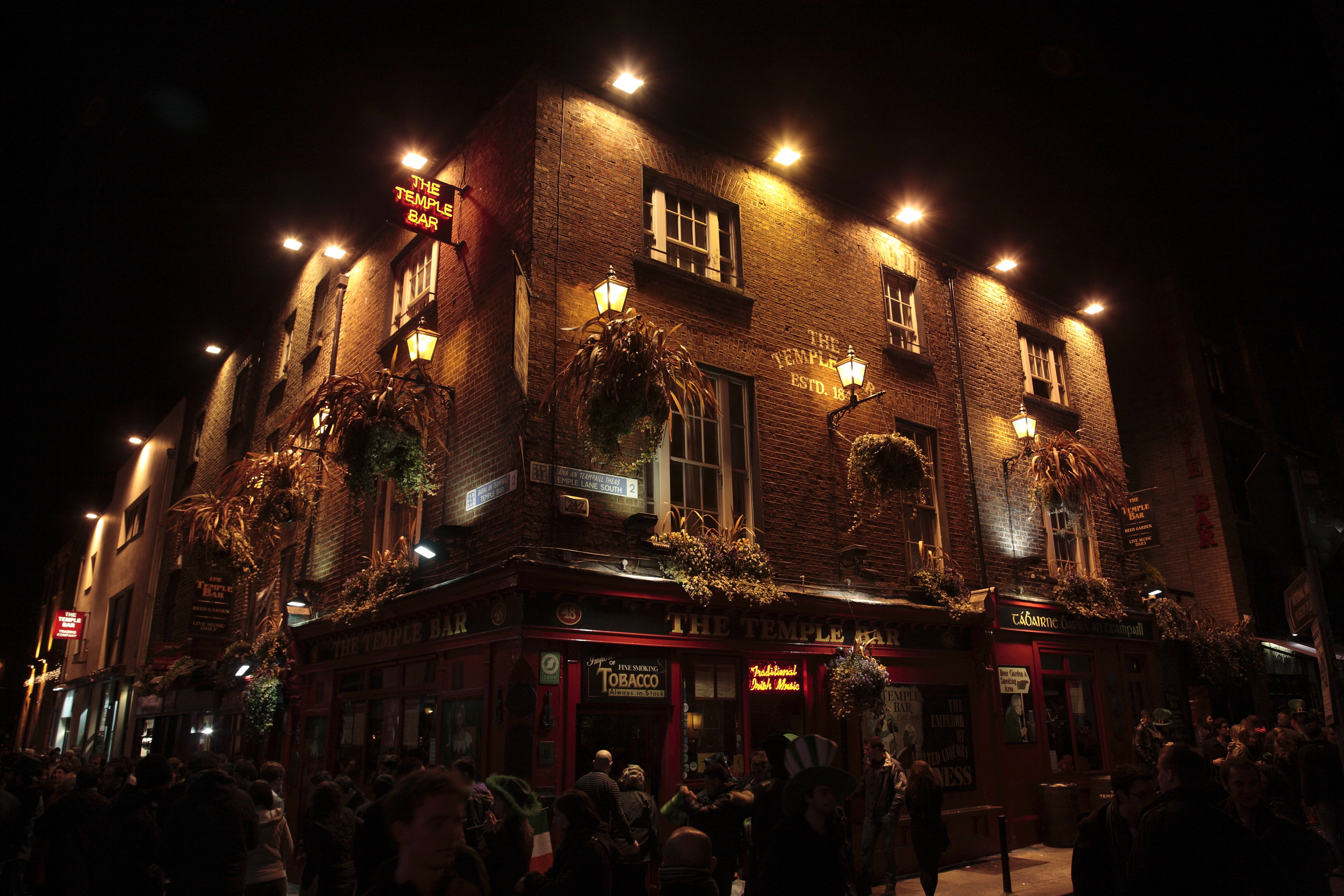 The Temple Bar on Temple Bar corner Temple Lane South, Dublin, Republic of Ireland, at night